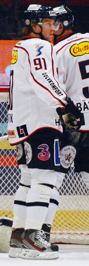 Andreas Jämtin during a SHL game against AIK.